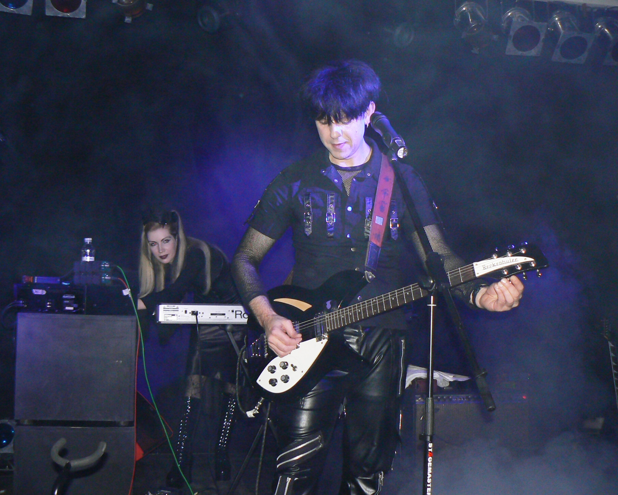 Clan of Xymox at a concert in Bulgaria